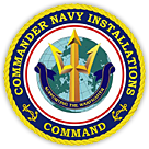 U.S. Navy Installations Command logo.